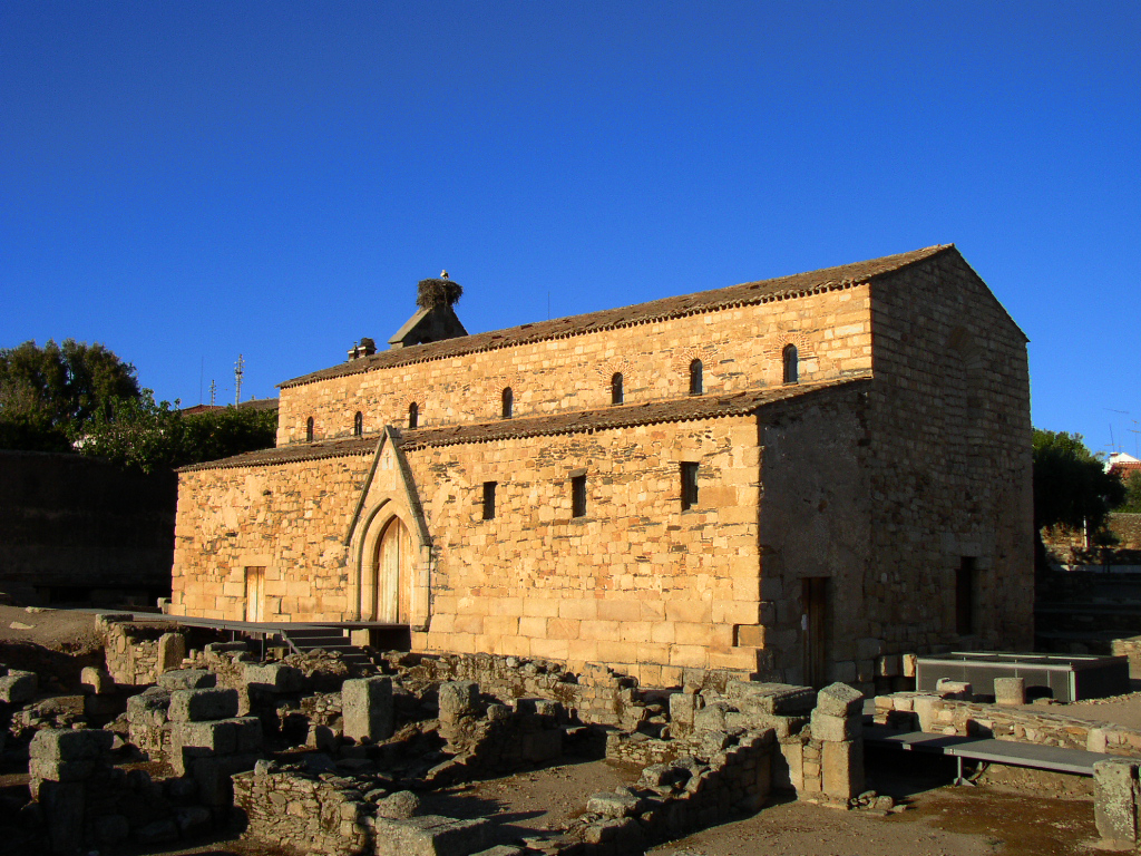 Idanha-a-Velha Cathedral